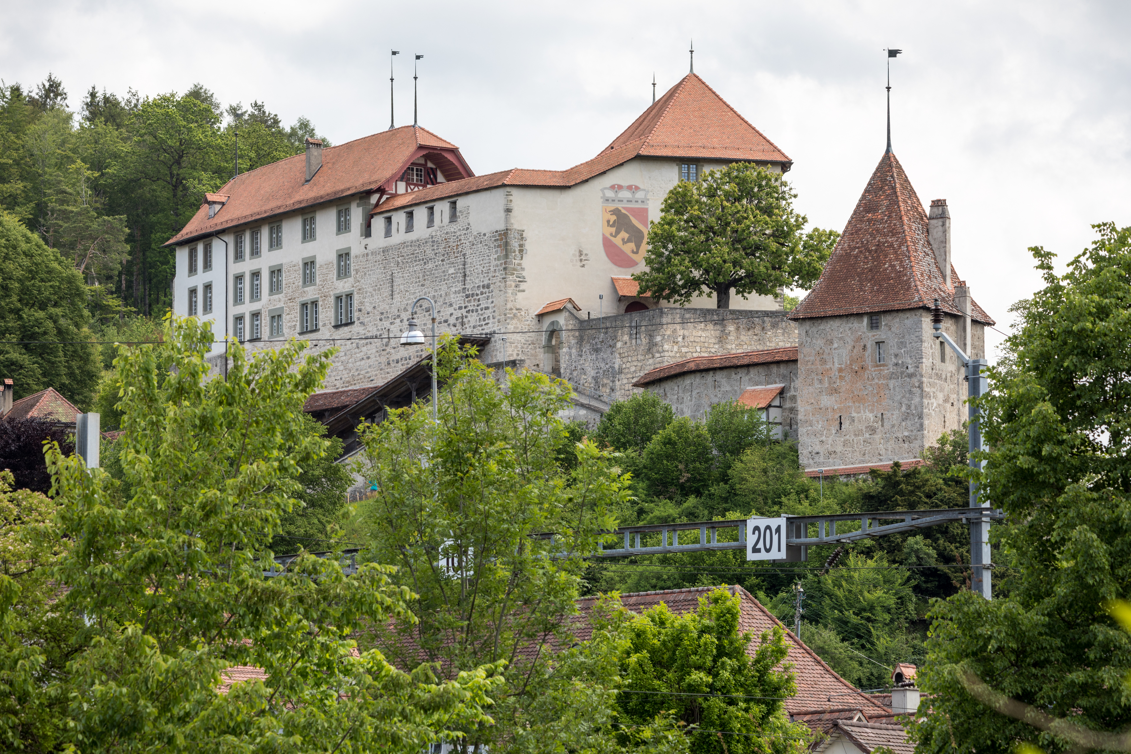 Laupen castle, canton of Bern. 12th - 17th century.